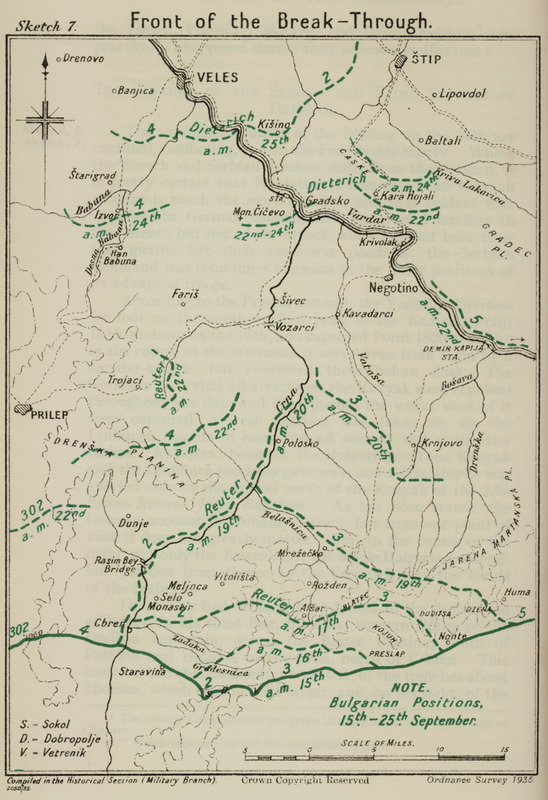 Dobro pole breaktrough, 1918